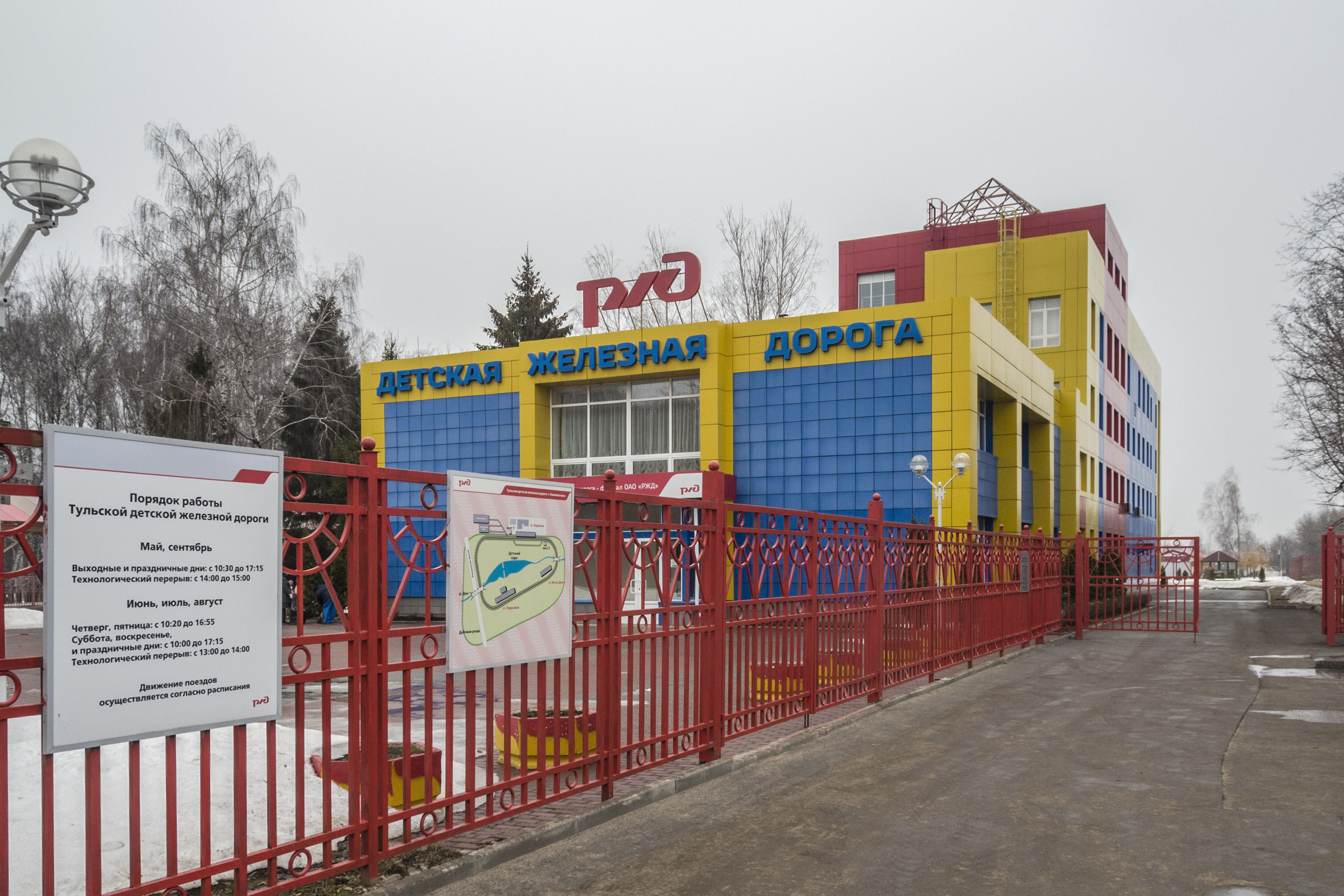 Novomoskovsk Children's Railway Administration